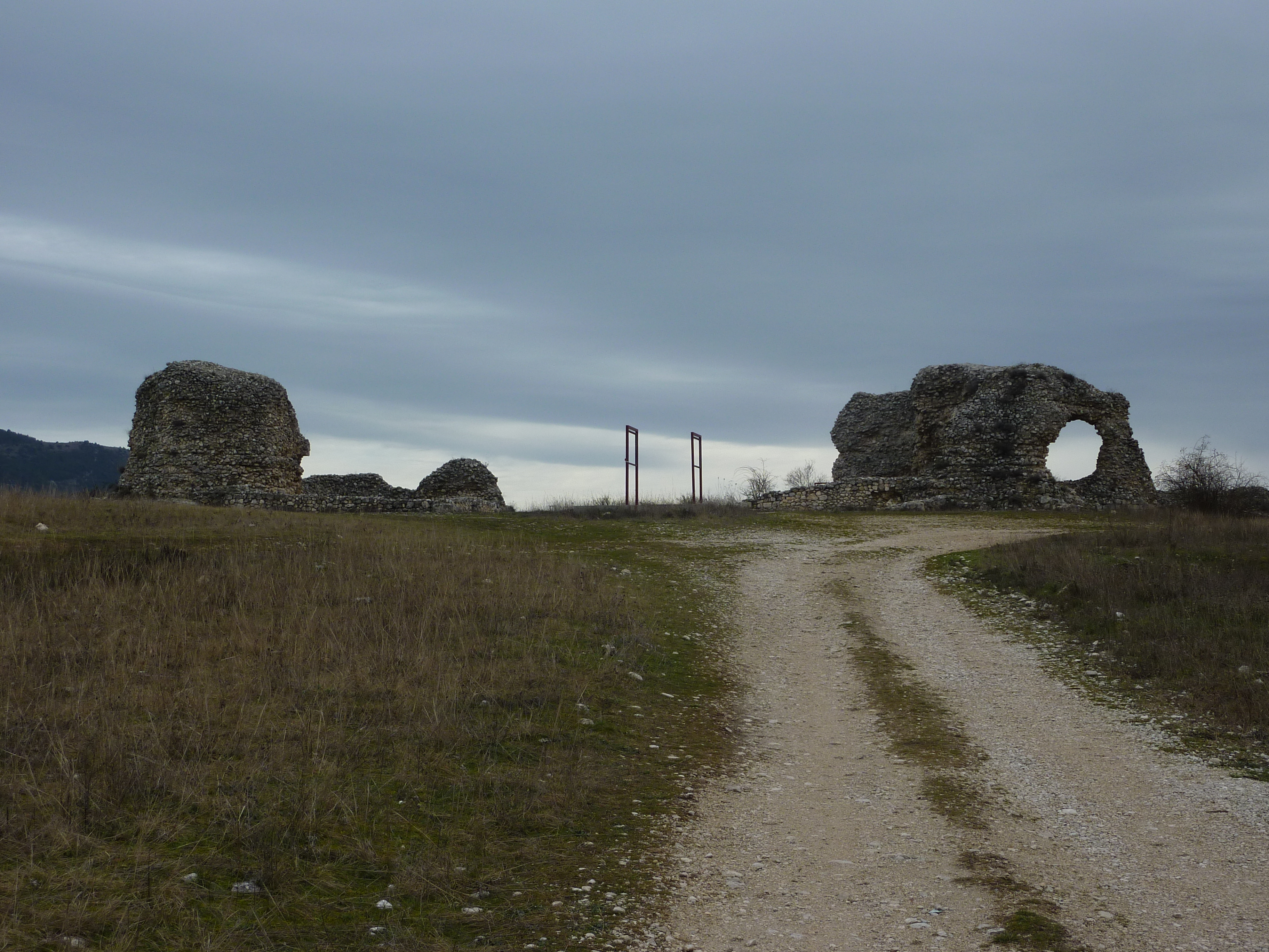 Peltuinum, Prata d'Ansidonia (AQ) - Landscape